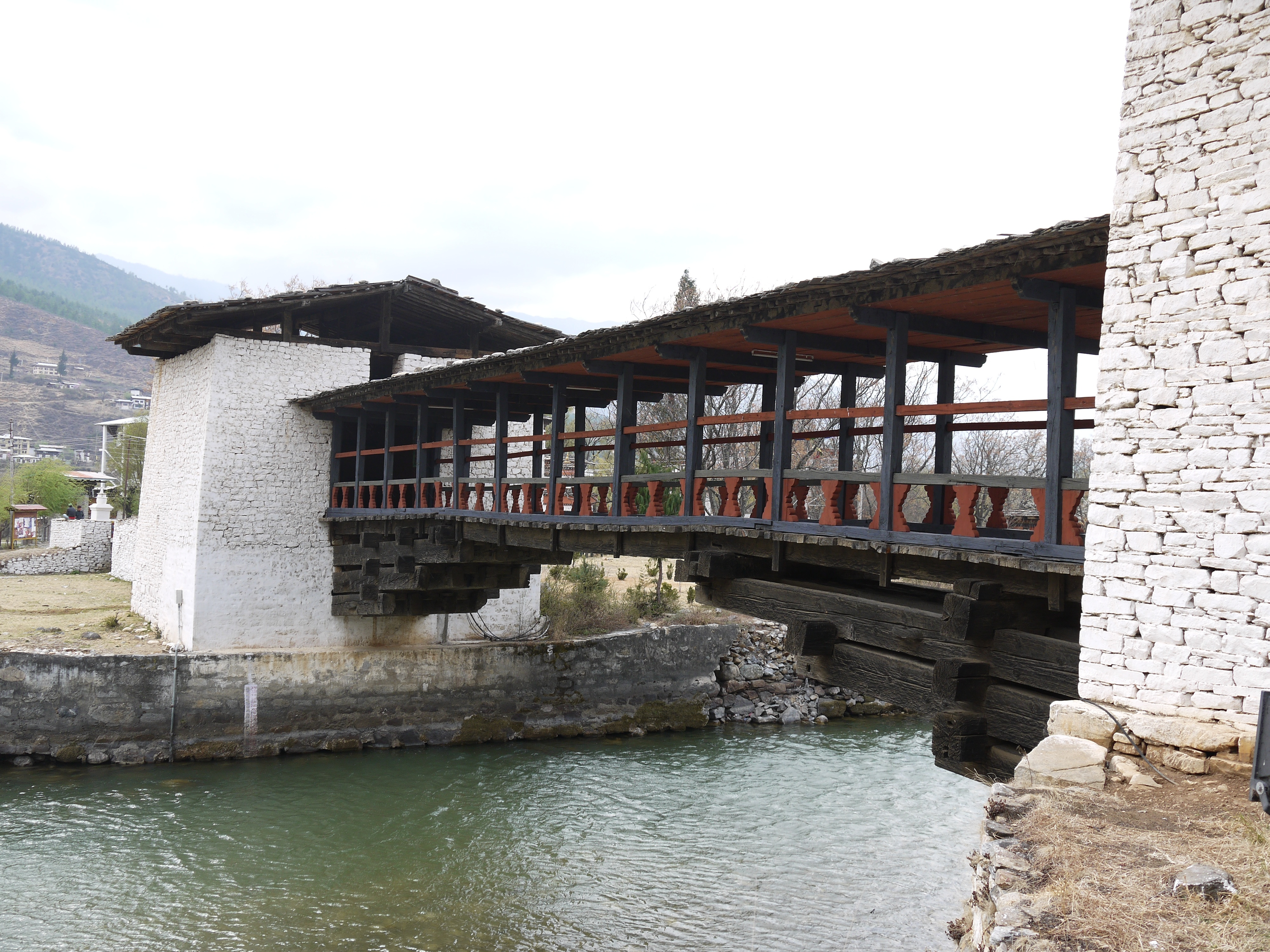 Bridge near Rinpung Dzong